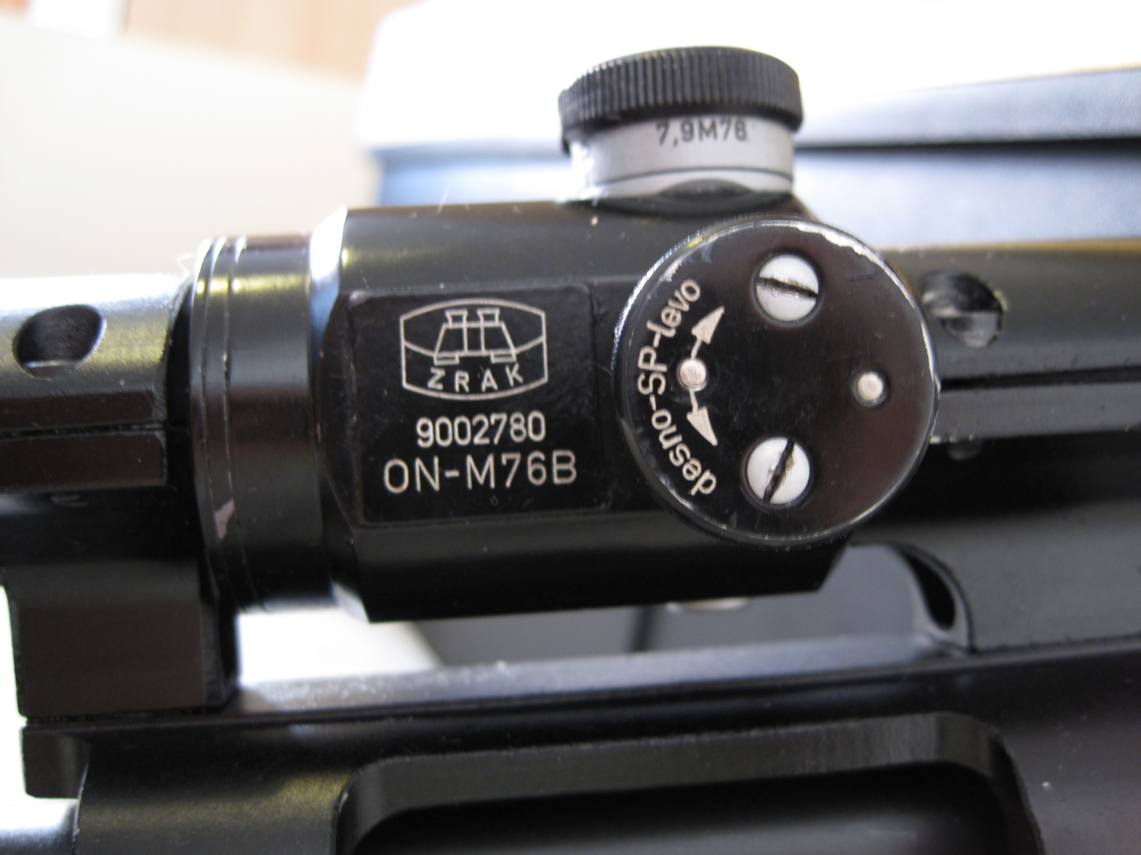 Zastava M-76 scope, Zrak On-M76